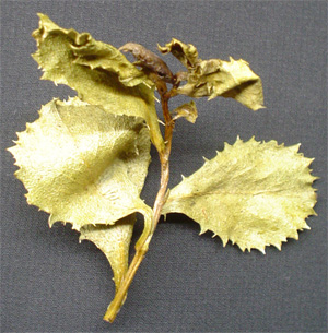 Baylahuen: Photo, of a dry outbreak. Plant of traditional use, in the natural medicine. It relieves digestive affections, strengthens the immunological system. Likewise it purifies and restores the liver.